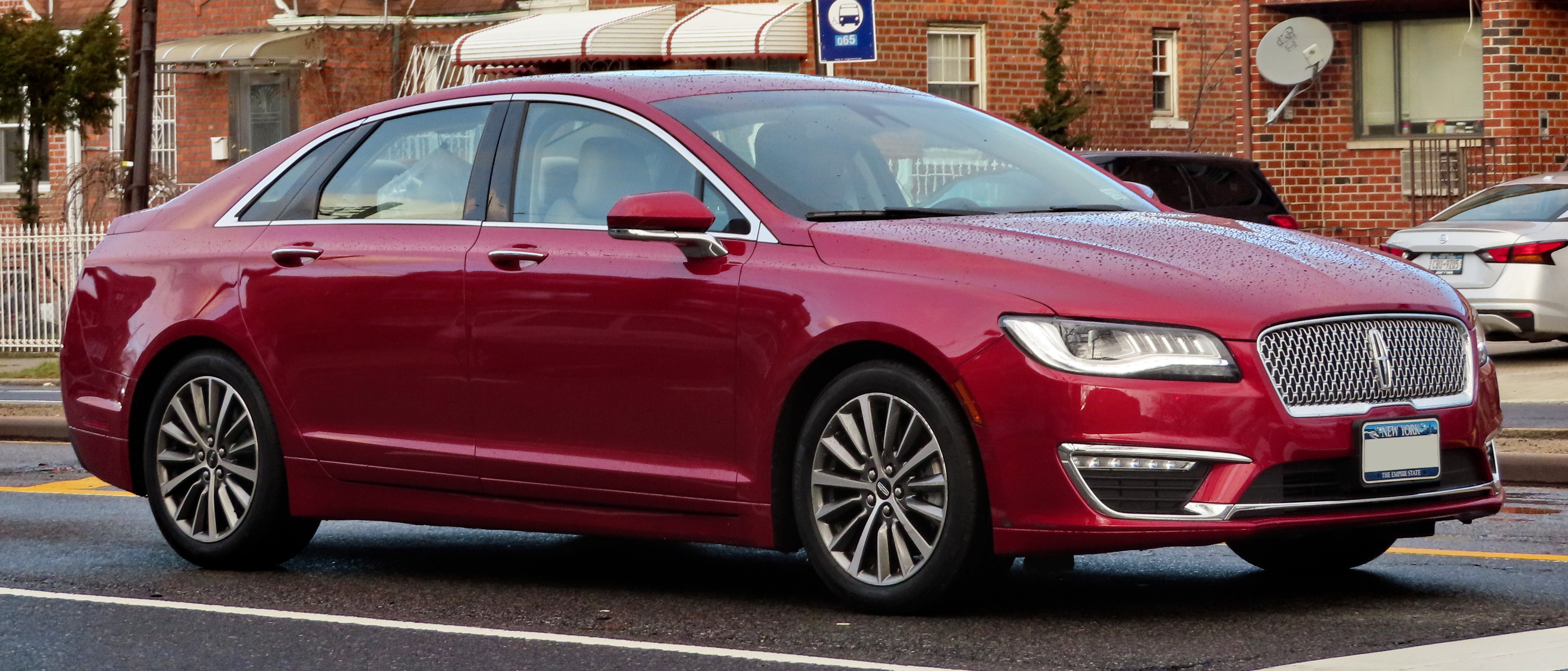 A 2018 Lincoln MKZ photographed in Fresh Meadows, Queens, New York, USA